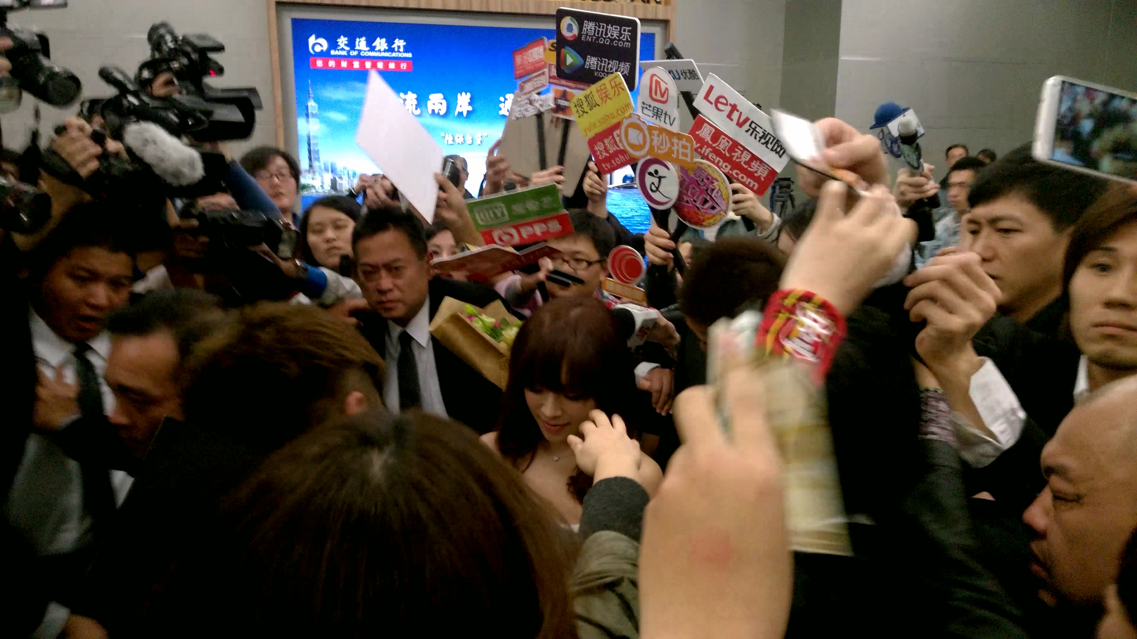 Ayumi Hamasaki in Taipei Songshan Airport